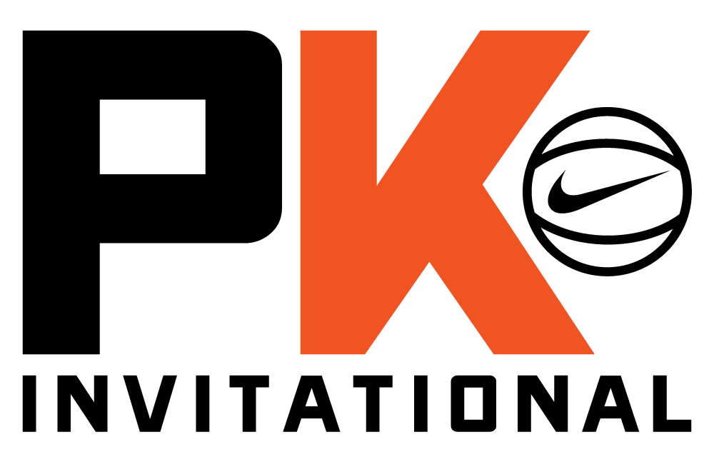 Logo for the Phil Knight Invitational, a tournament basketball event.